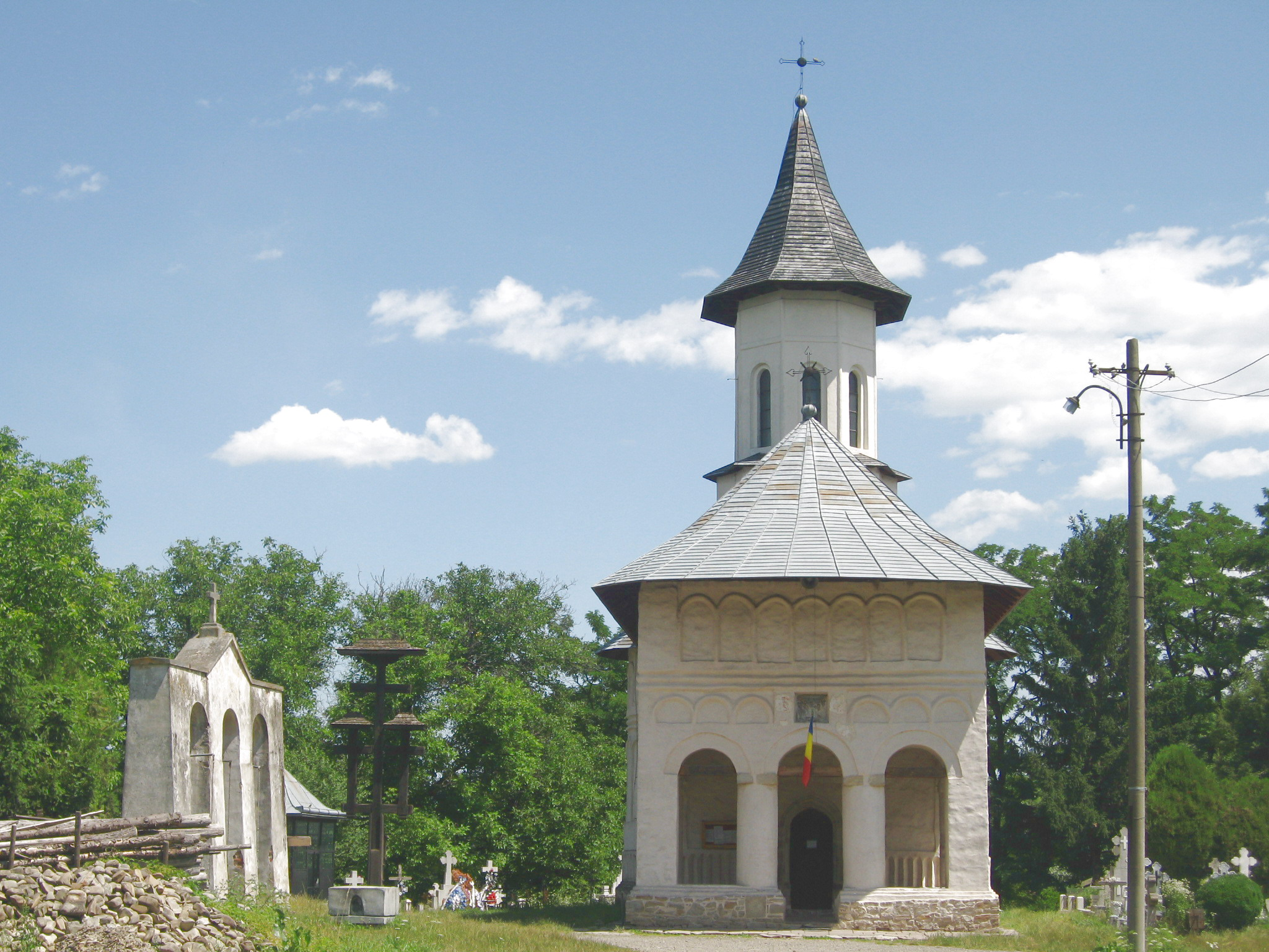 Assumption Church in Iţcani, Suceava.